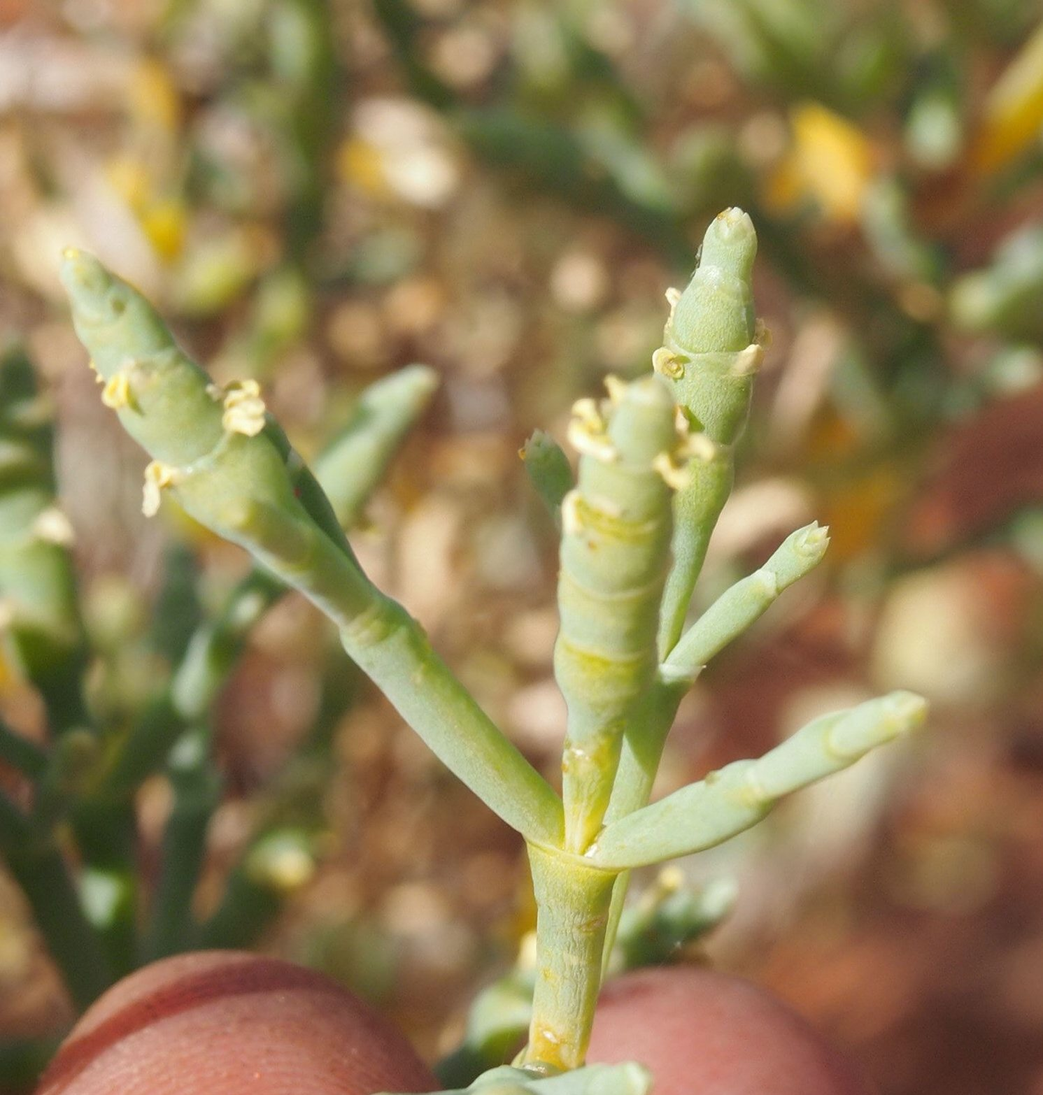 Tecticornia tenuis